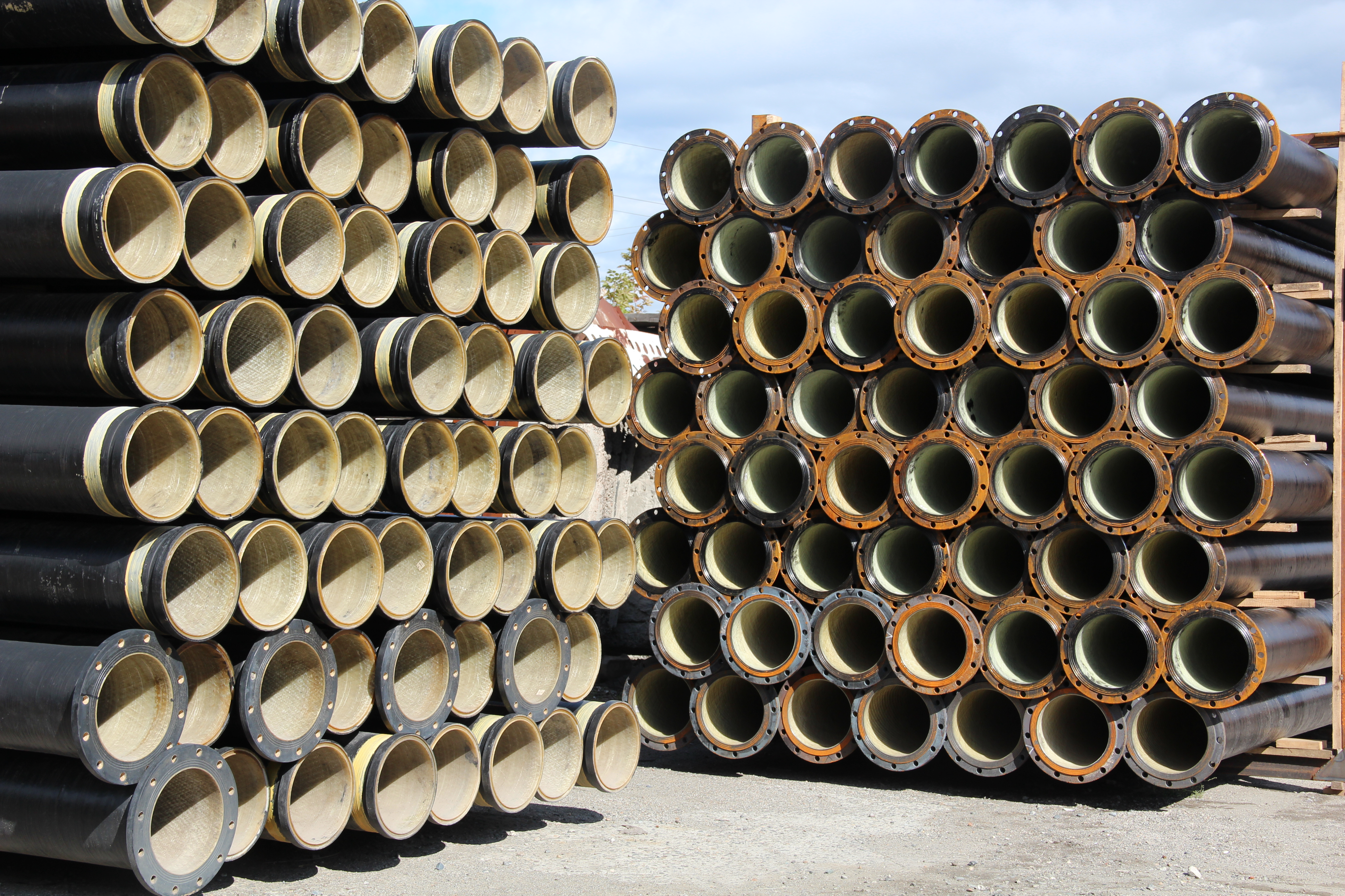 Fiberglass pipes for coal mines degasation D=230 mm